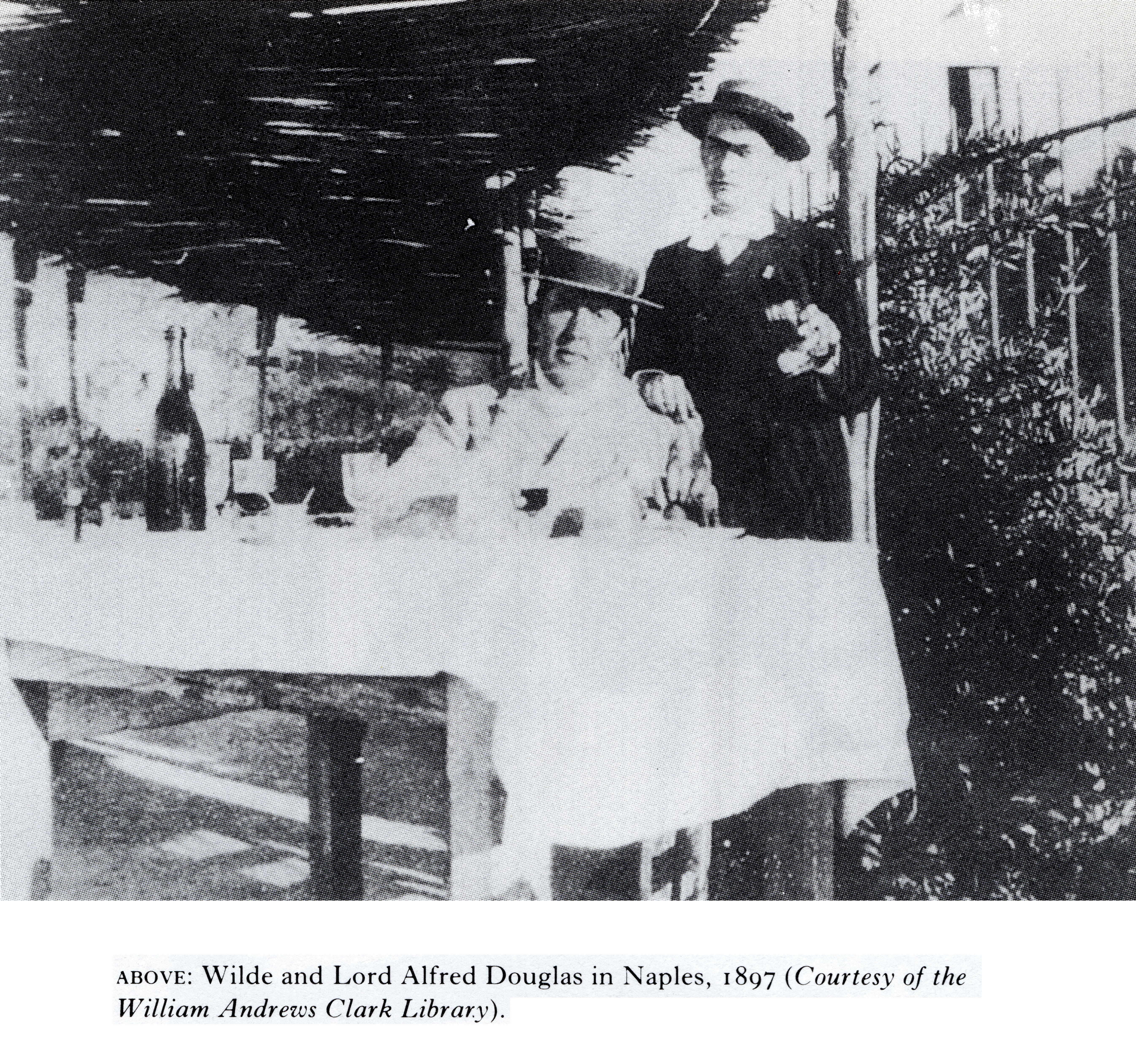 Oscar Wilde and Lord Alfred Douglas in Naples (1897)